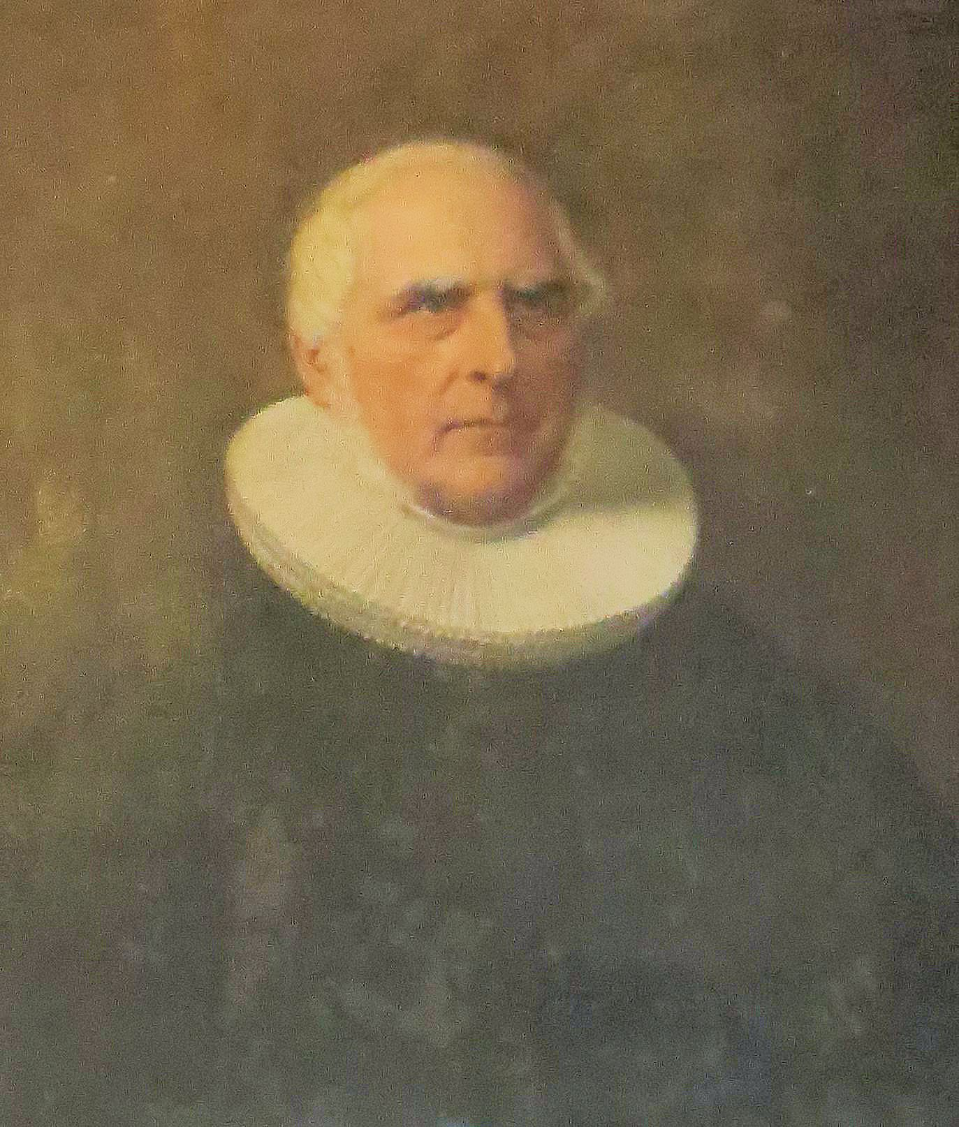 Portrait of Johannes Rußwurm by Mathilde Block in Ratzeburg Cathedral